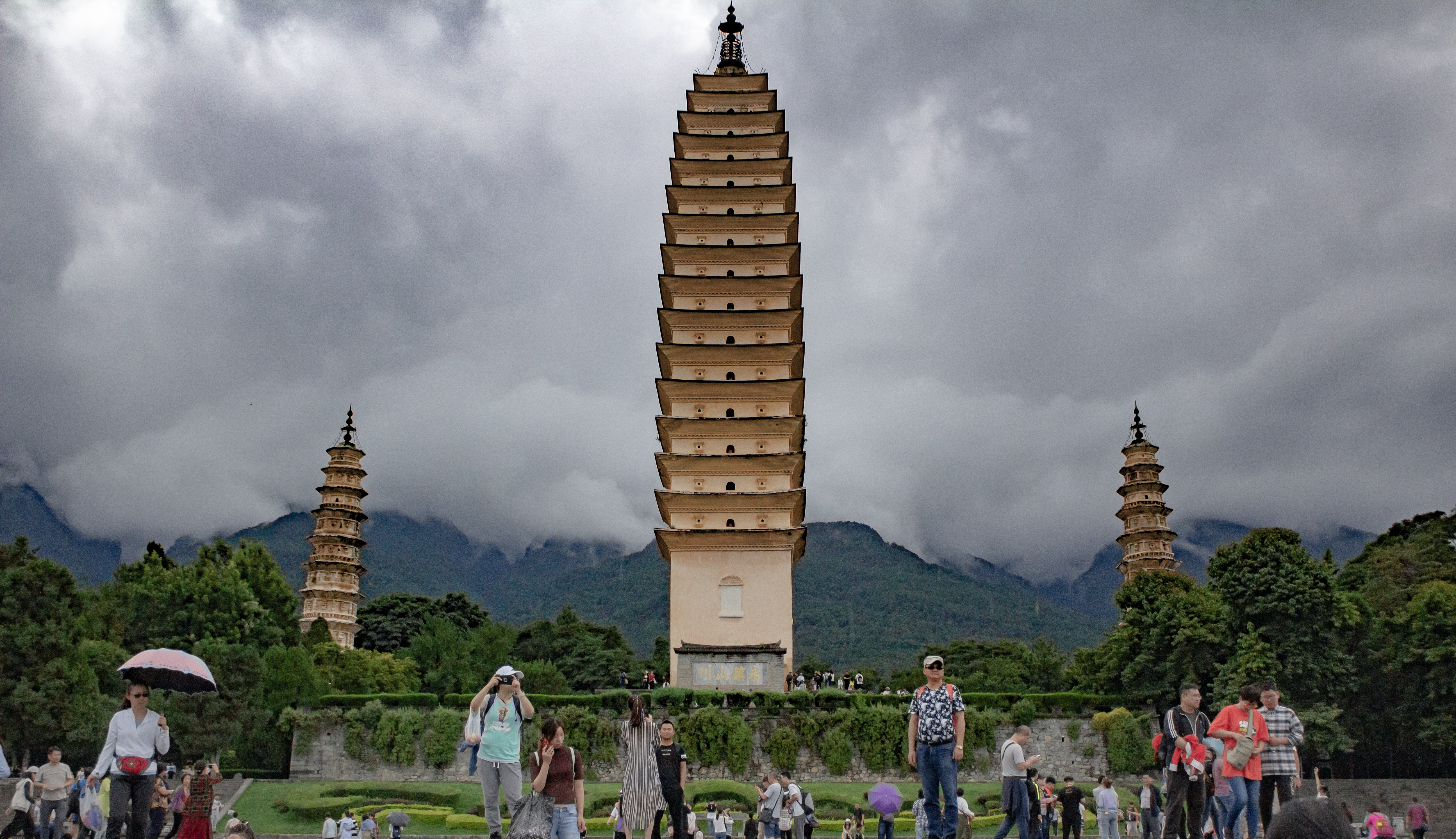 A front view of the Three Pagodas of Chongsheng Temple in Dali, Yunnan. This was taken in the entrance area.